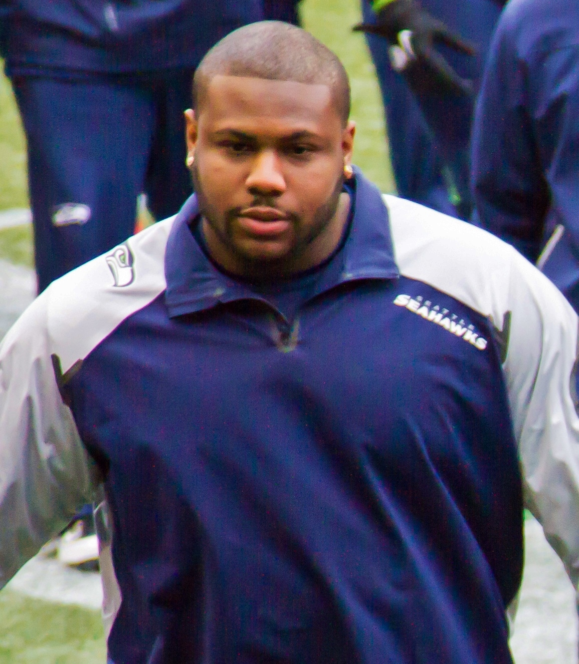 Seattle Seahawks offensive tackle Michael Bowie after a game in 2013.